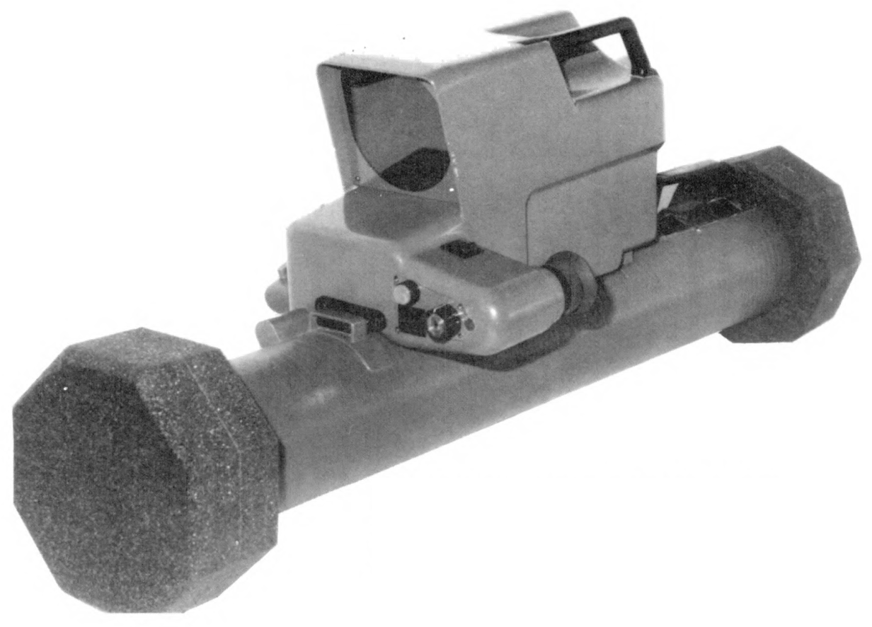 Ford AAWS-M candidate (Laser Beam Rider) prototype man-portable missile system.